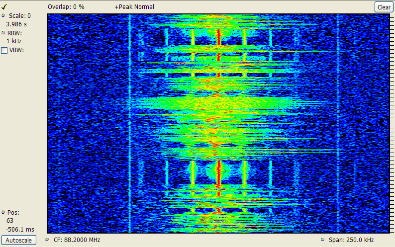 Spectrogram of an FM-Radio transmission from germany. Left are low frequencies, right are high frequencies. New lines come in from the bottom and move to the top. You can clearly see the stereo pilot as well as the RDS signal